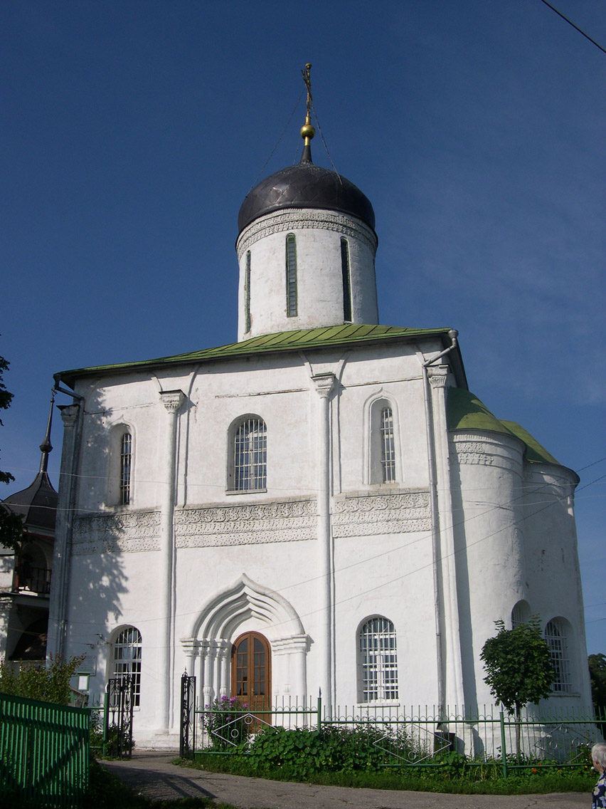 Yspenskiy sobor in Zvenigorod (1396-1399) is a most ancient cathedral of the Moskow area.